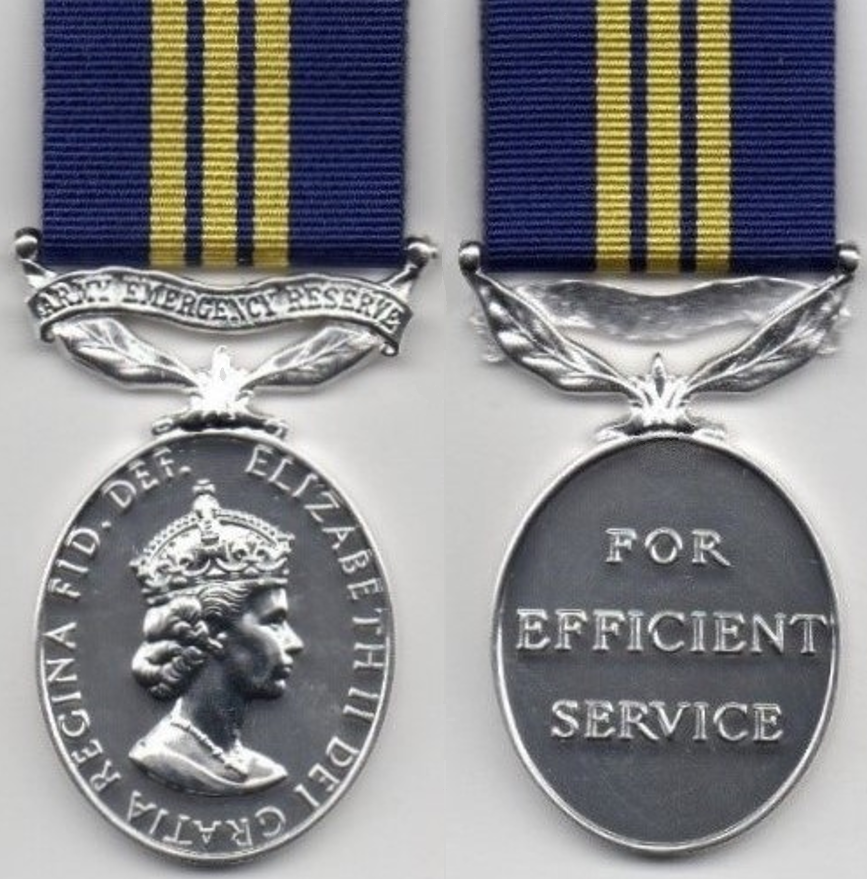 British long service award awarded 1953-67.